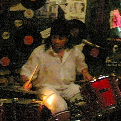 Tony Gloudie (drummer of The Lemming) at the last opening night of Café de Beukelsbrug in Rotterdam. Cropped image to remove other persons in the picture. Tony Gloudie (drummer van The Lemming) op de laatste openingsnacht van Café de Beukelsbrug te Rotterdam. Afbeelding is afgesneden om andere personen in de foto te verwijderen.